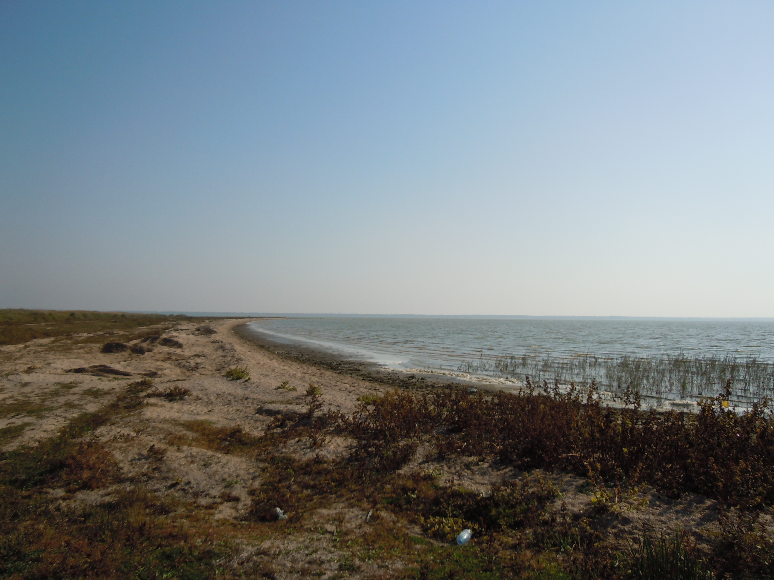 The coast of the Sasyk Lagoon near Glyboke Village, Odessa Oblast, Ukraine